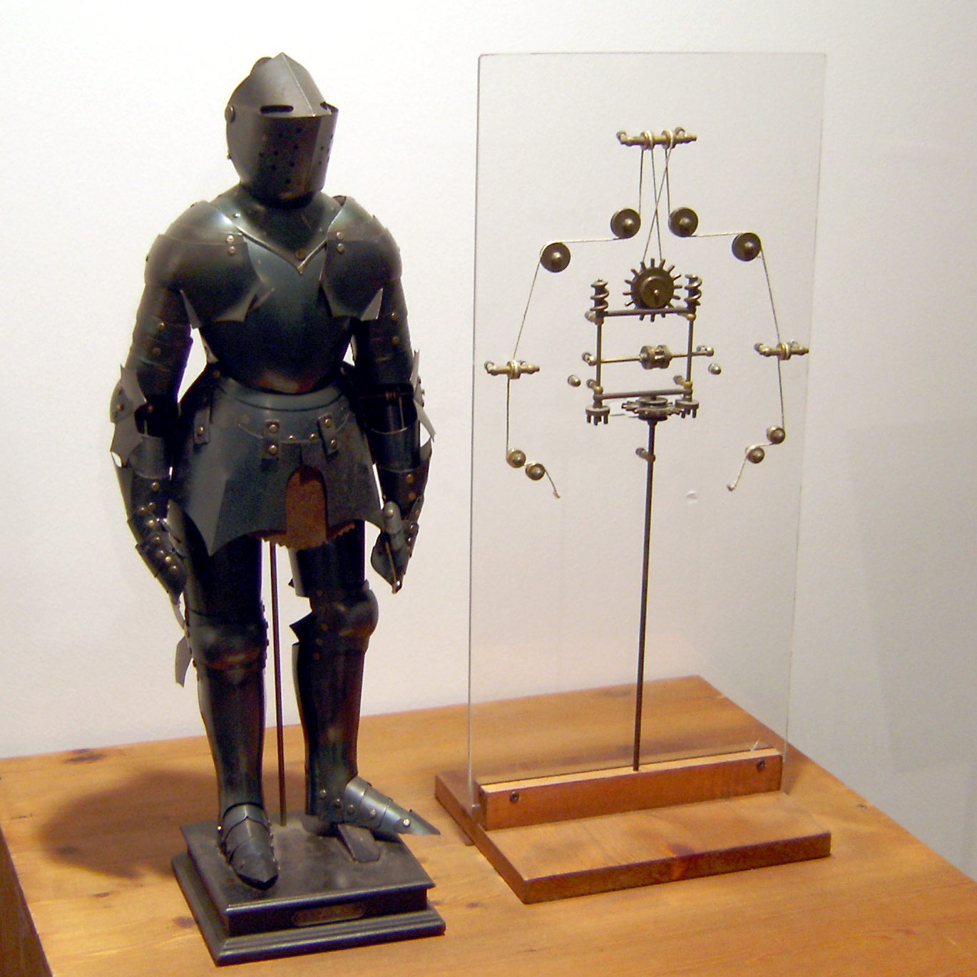 Model of a robot based on drawings by Leonardo da Vinci.